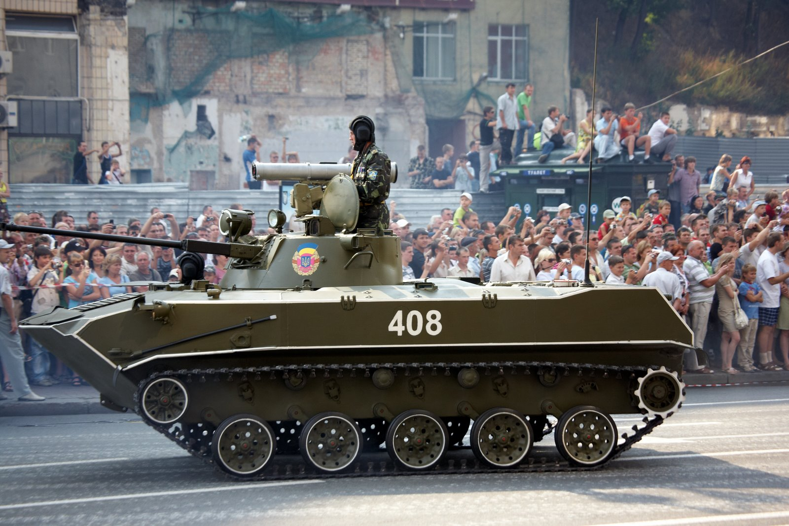 Ukrainian BMD-2 tank during the Independence Day parade in Kiev, Ukraine in 2008.